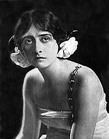 Publicity photo of actress Clara Kimball Young, from the film Camille (1915). Copyright exp.